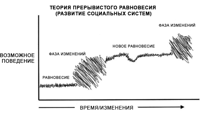 Punctuated equilibrium